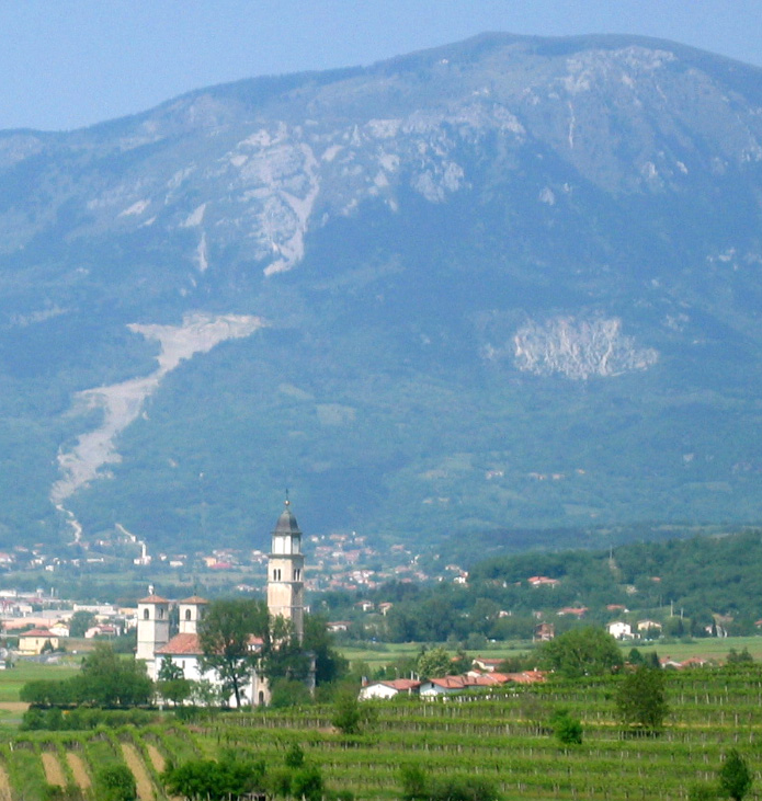 Log, a hamlet of the village of Budanje, southwestern Slovenia.